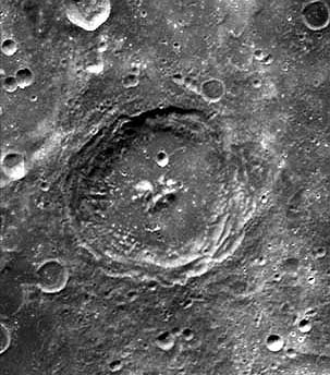 Bhabha crater modified image from the Apollo Footprint Viewer.